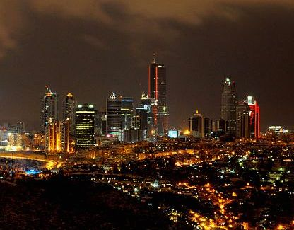 cropped version